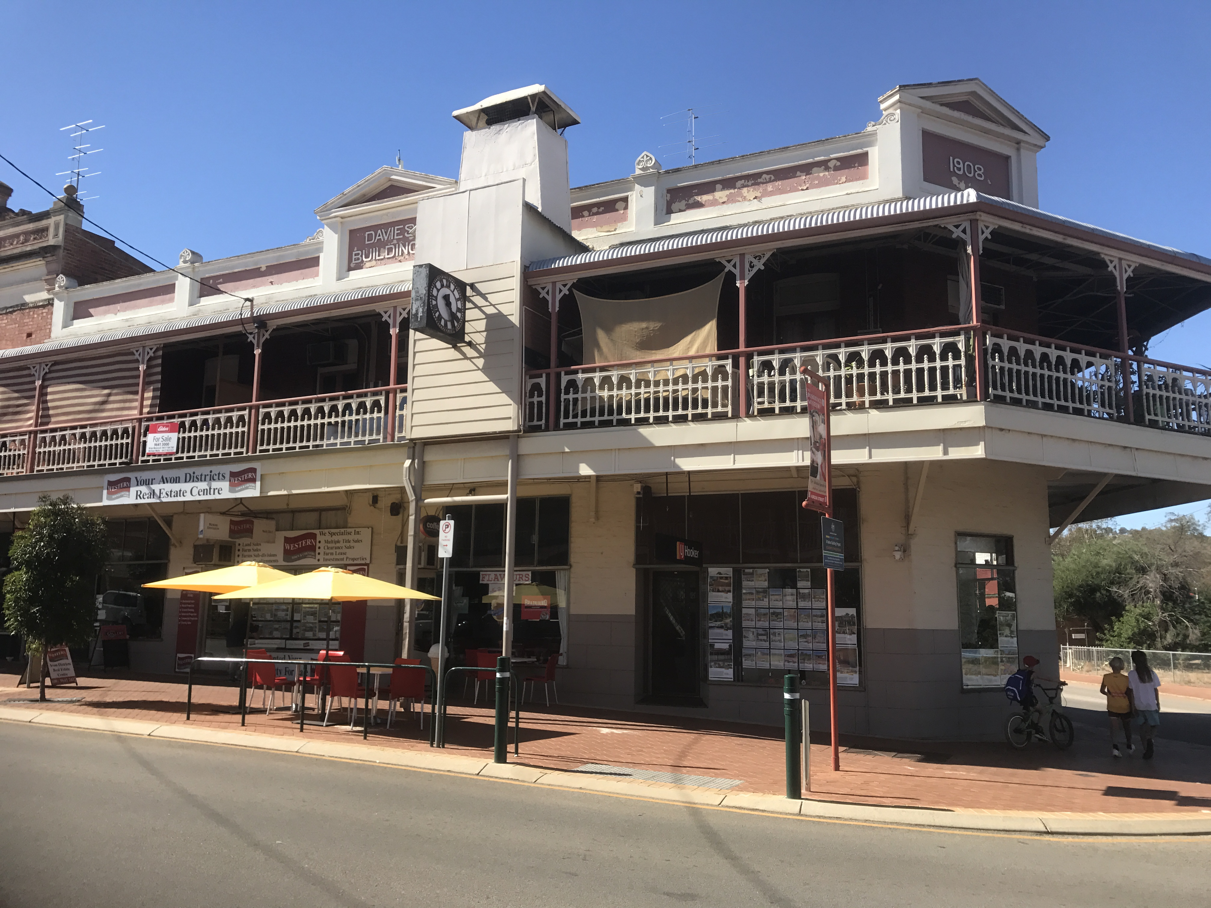 Davies Building